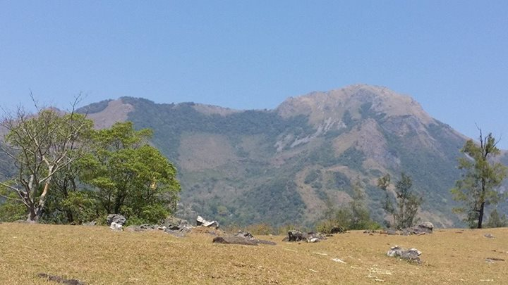 This picture was shot from Boramori. The top of the mountain is Watulei-kidu. Then below the Watulei-kidu, we can see Sabraka Wua-mesa, Kaikuliho'o and Kaiserulale. The places which behind that mountain are Aldeia Lena and Buibela.